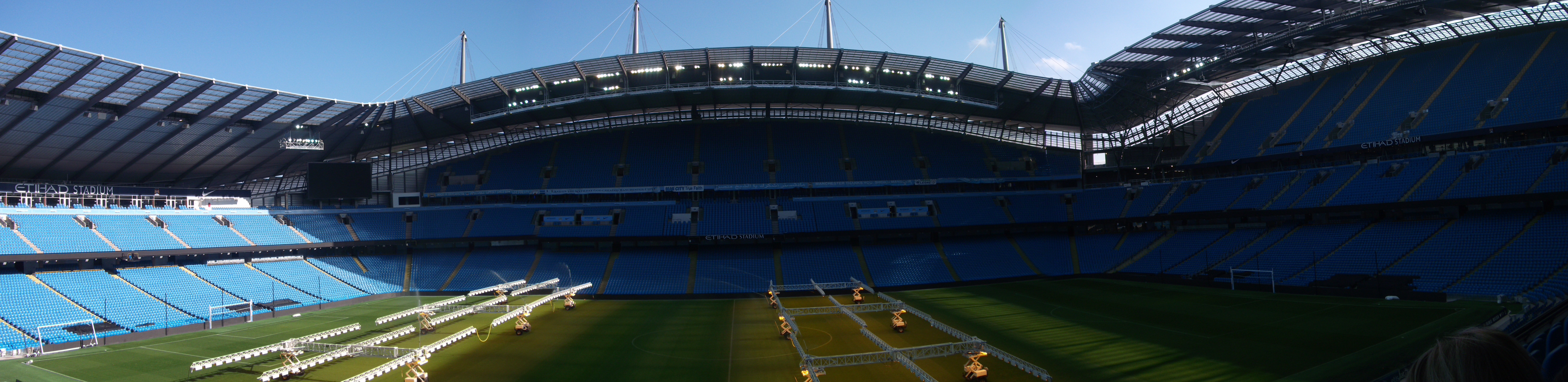 City of Manchester Stadium, October 2015